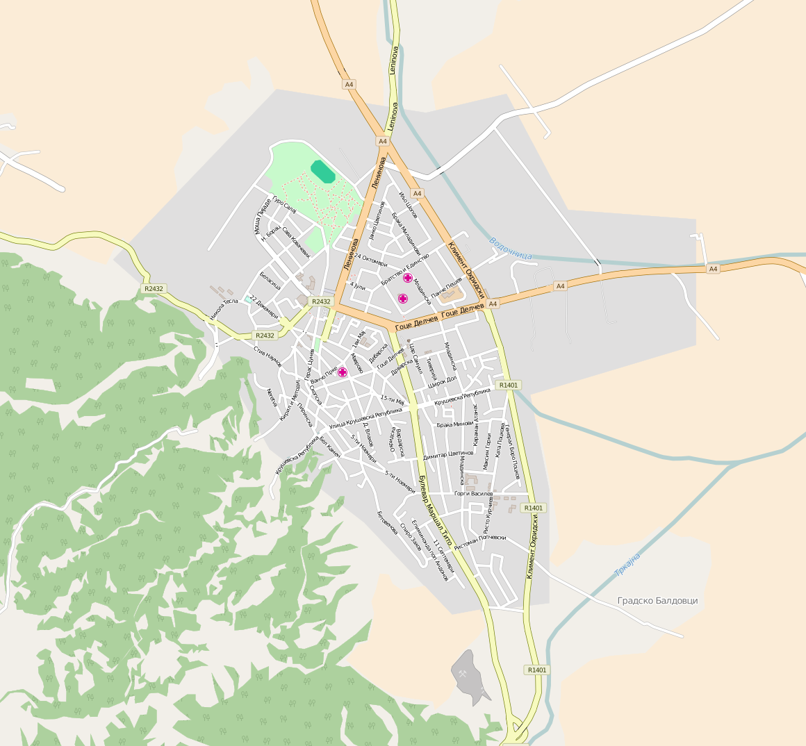 OpenStreetMap - Map of Strumica